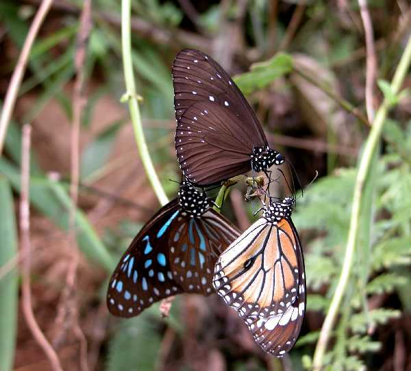 Danainae Butterflies taken at Jairampur, Arunachal Pradesh, India. Clockwise from left: Dark Blue Tiger (Tirumala septentrionis), Striped Blue Crow (Euploea mulciber), and Common Tiger (Danaus genutia)